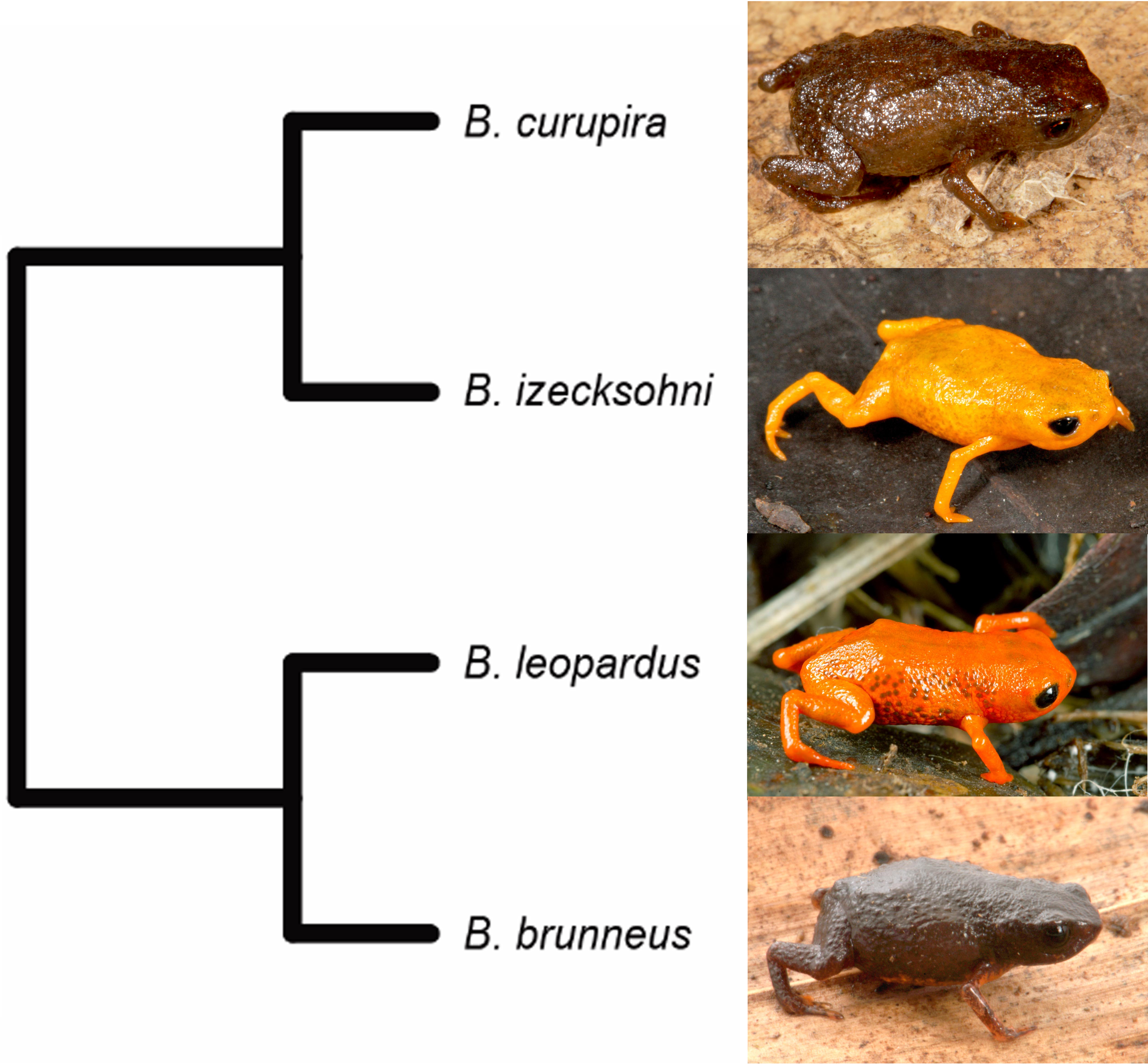 Phylogenetic relationships between Brachycephalus curupira and closely related species